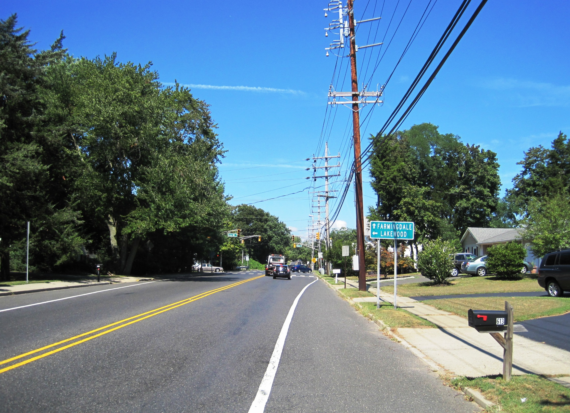 Photo of Herbertsville, New Jersey, an unincorporated community within Brick Township. Photo taken along northbound Herbertsville Road (County Route 549 Spur) at Lanes Mill Road.